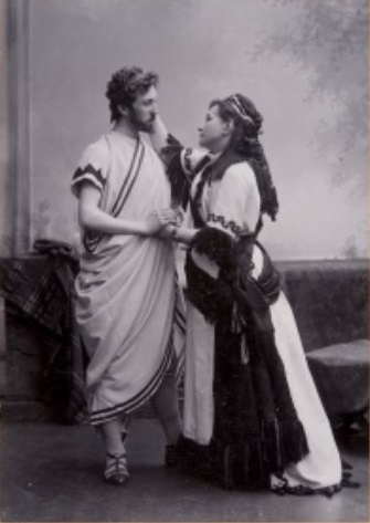 Benjamin Leino and Charlotte Raa in "Lea" by Aleksis Kivi, Finnish National Theatere, 1880.